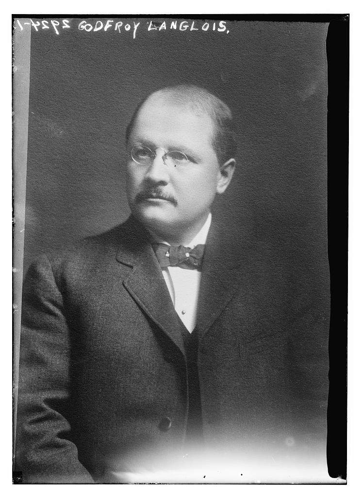 Godfroy Langlois Bain News Service, publisher. [between ca. 1910 and ca. 1915] 1 negative : glass ; 5 x 7 in. or smaller. Notes: Title from unverified data provided by the Bain News Service on the negatives or caption cards. Forms part of: George Grantham Bain Collection (Library of Congress). Format: Glass negatives. Repository: Library of Congress, Prints and Photographs Division, Washington, D.C. 20540 USA, General information about the Bain Collection is available at Persistent URL: Call Number: LC-B2- 2924-1